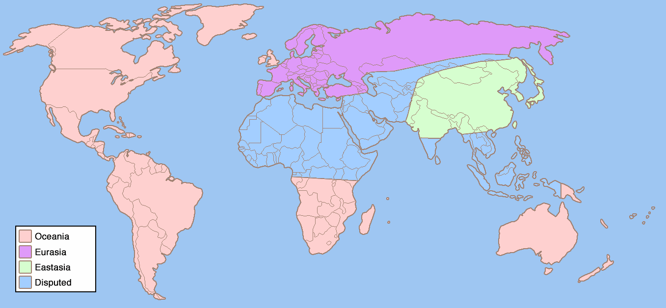 Fictitious map, illustrating the political landscape of Orwell's Nineteen-Eighty-four.